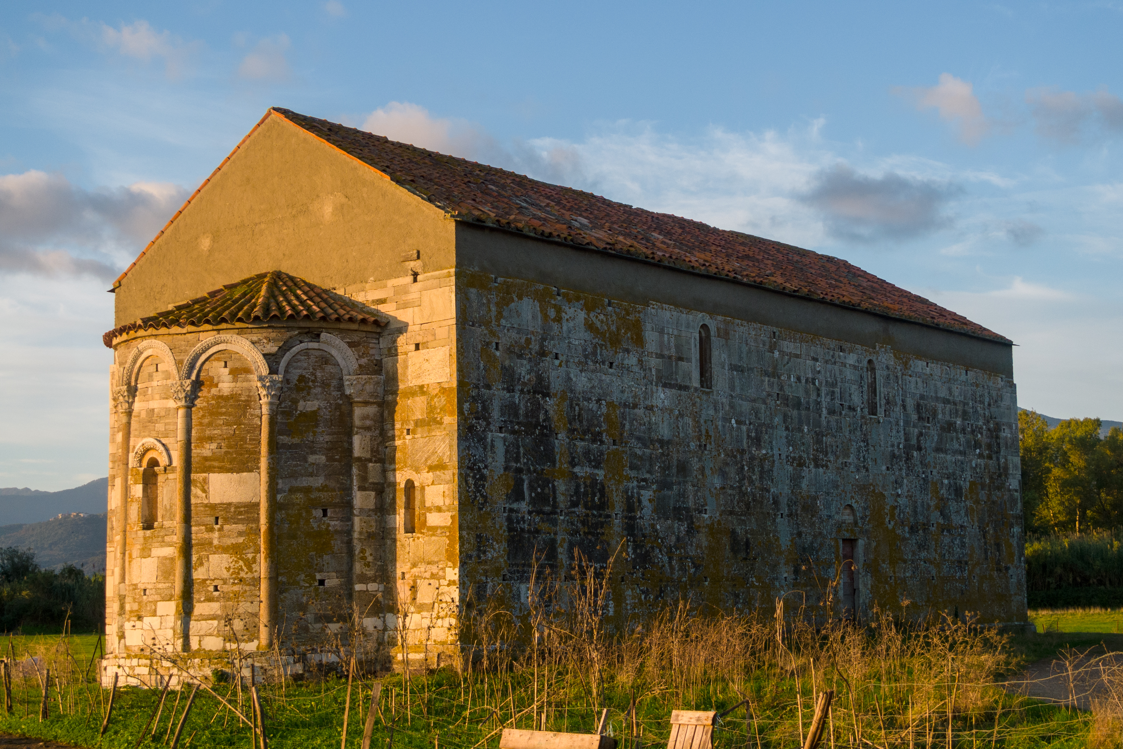 San Parteo Church in Lucciana (Corsica) seen from the northeast. The oldest parts (12th c.) have been recently completed with cement walls and a roof of tiles.